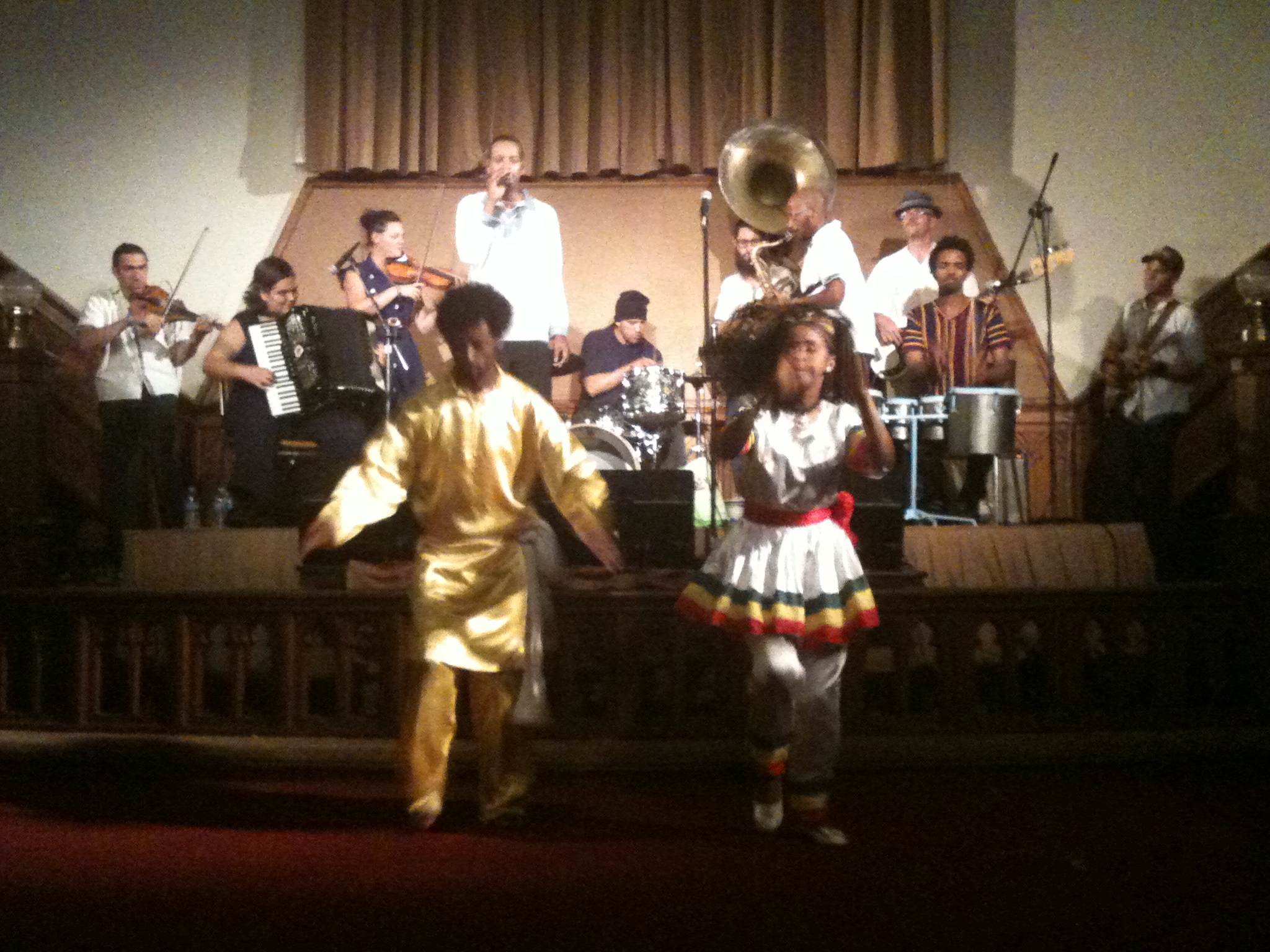 Ethiopian group Fendika performs with Boston's Debo Band in Philadelphia, September 2010.